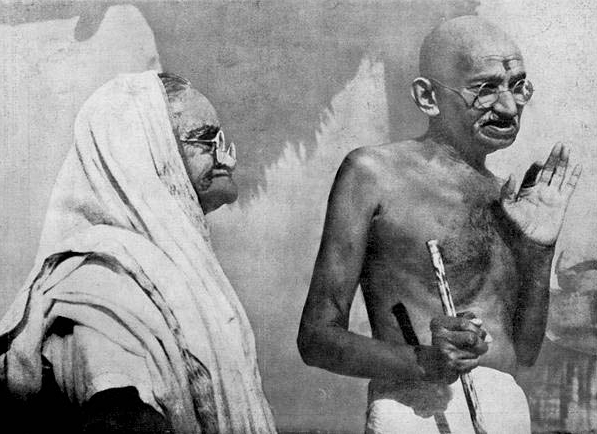 Gandhi and Kasturba at Sevagram Ashram.